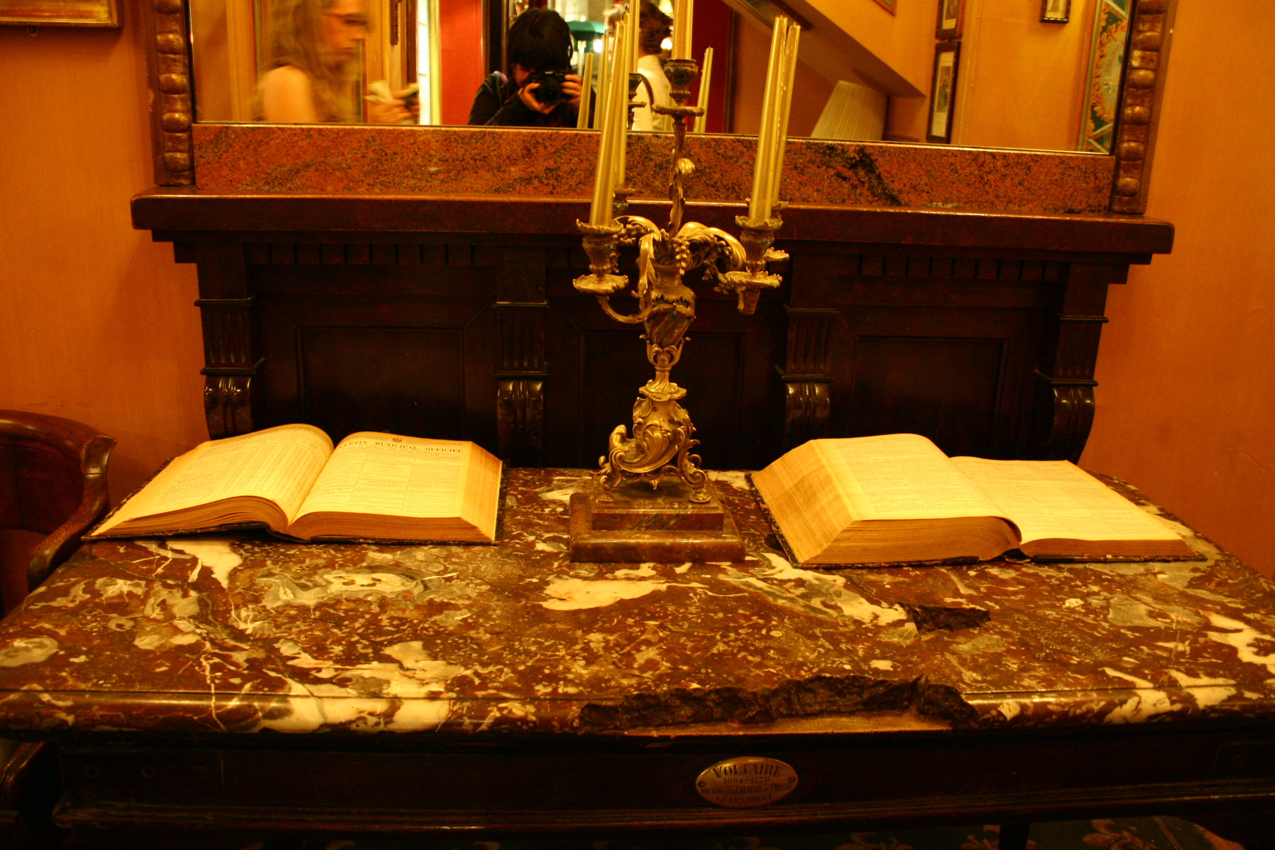 Voltaire's Desk at Le Procope. Flickr uploader's description: "FRANCE TRIP - JUNE 13TH - JUNE 26th Paris, France June 23rd, 2008